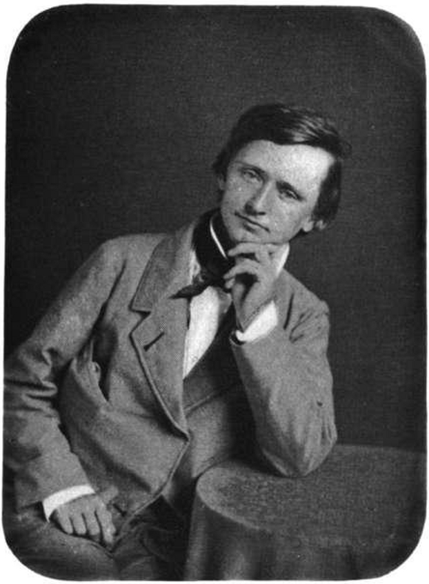 American painter/poet Thomas Buchanan Read - caption lists him as "at age 28". From The Poetical Works of Thomas Buchanan Read, published by J.B. Lippincott, 1894.